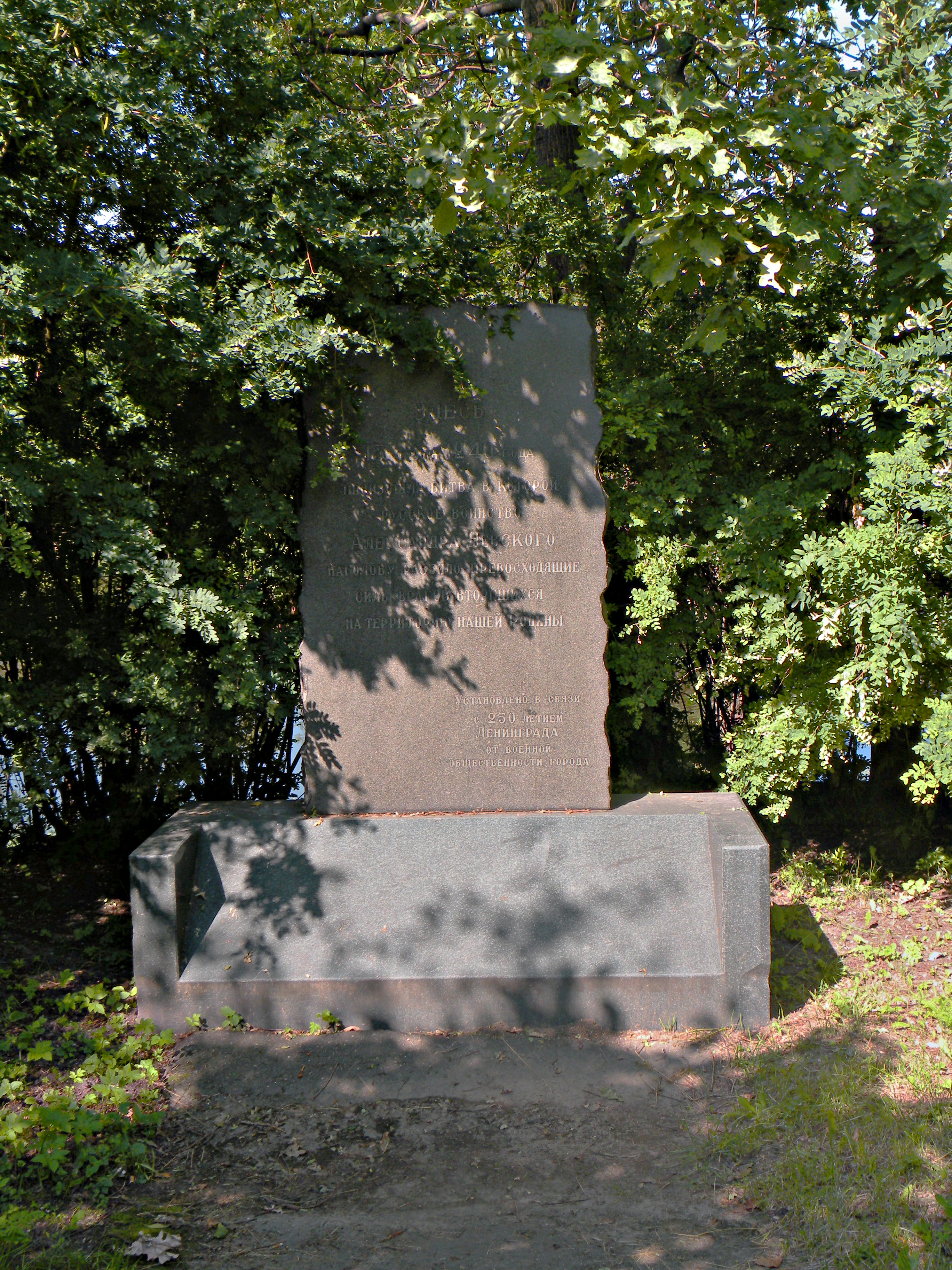 Izhora_(river).Newa_Battle_monument